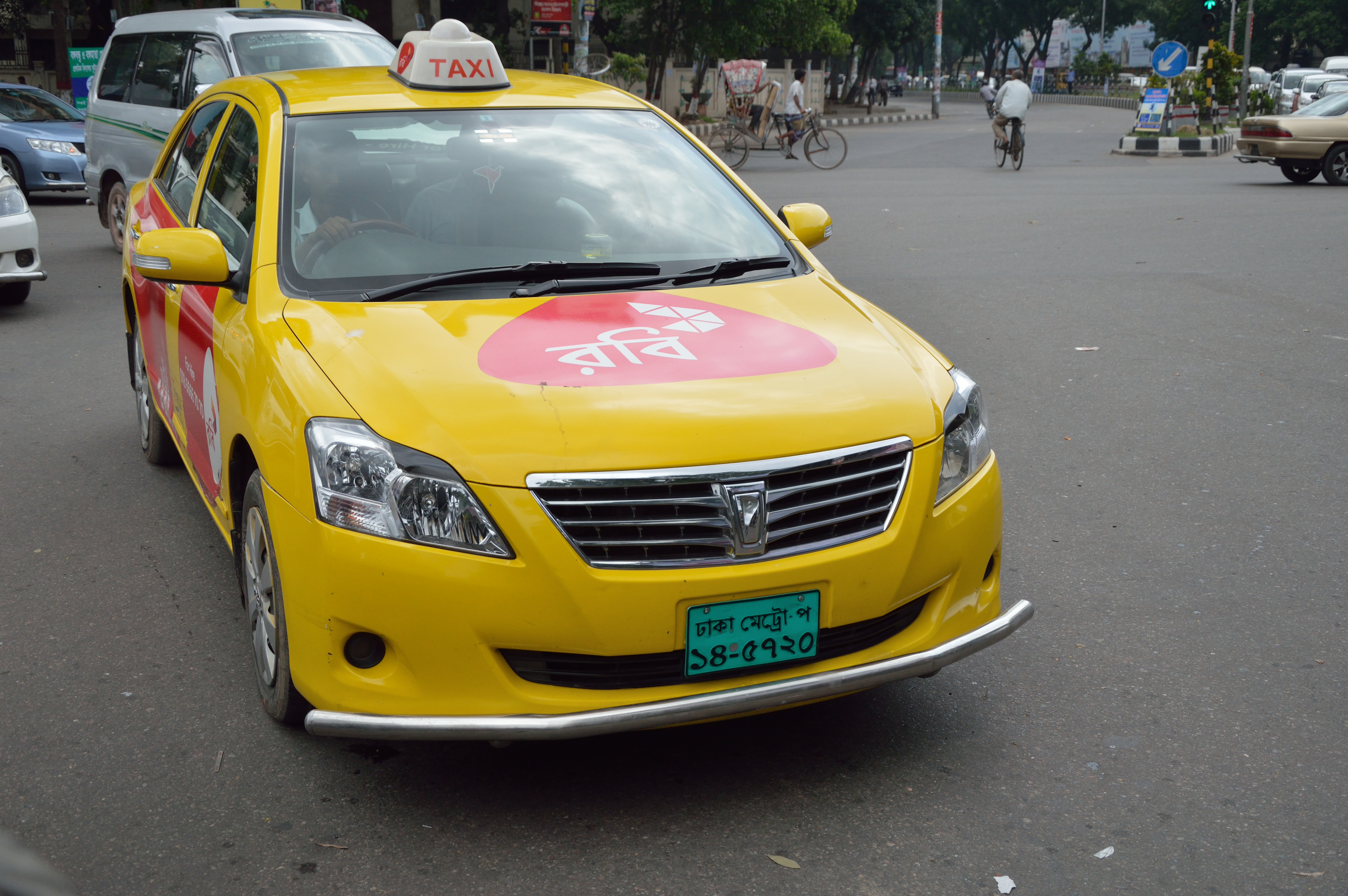 Photographed in Dhaka.